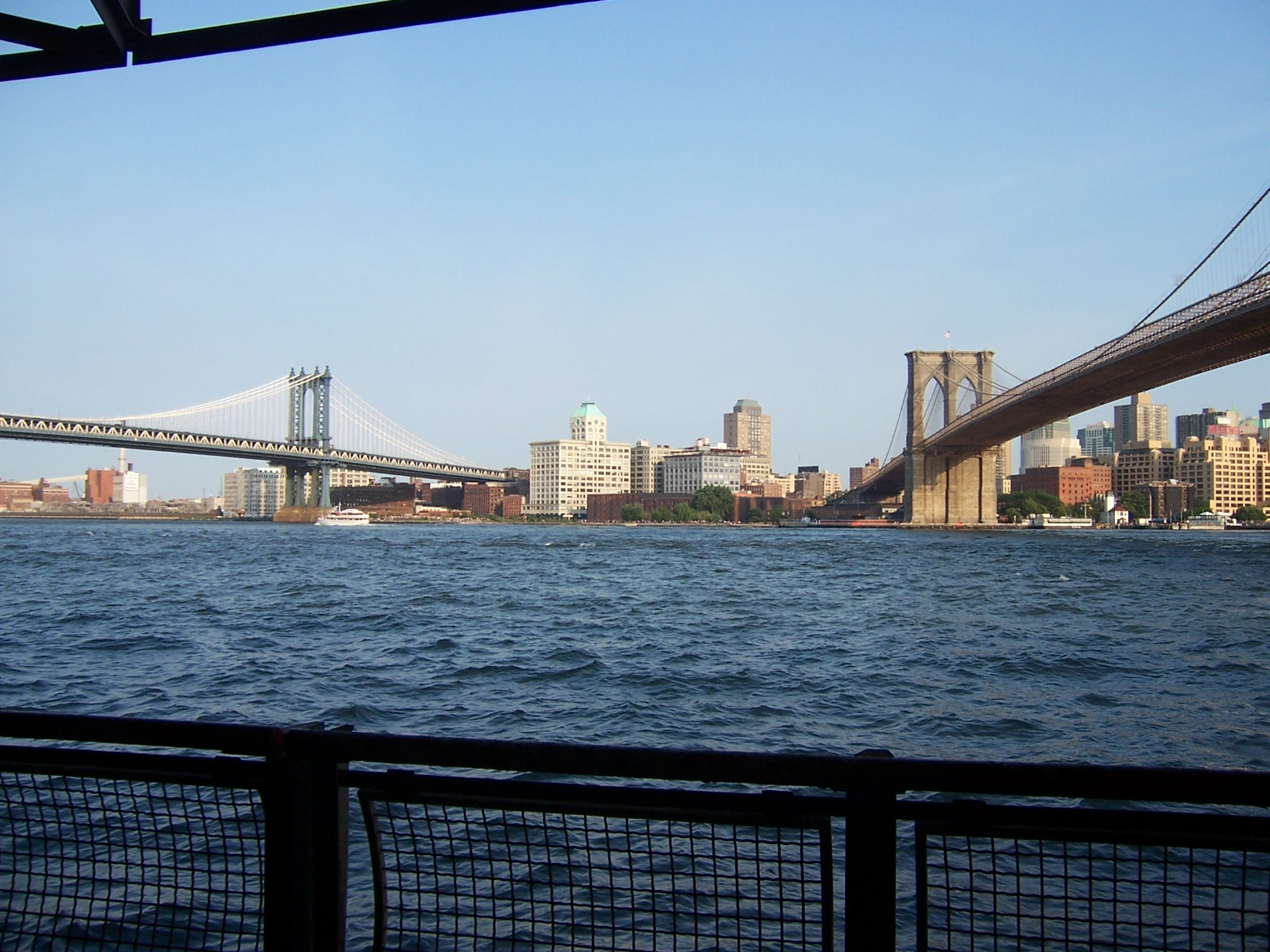 Description: View of Brooklyn and Manhattan Bridges and East River from Two Bridges, Manhattan, New York